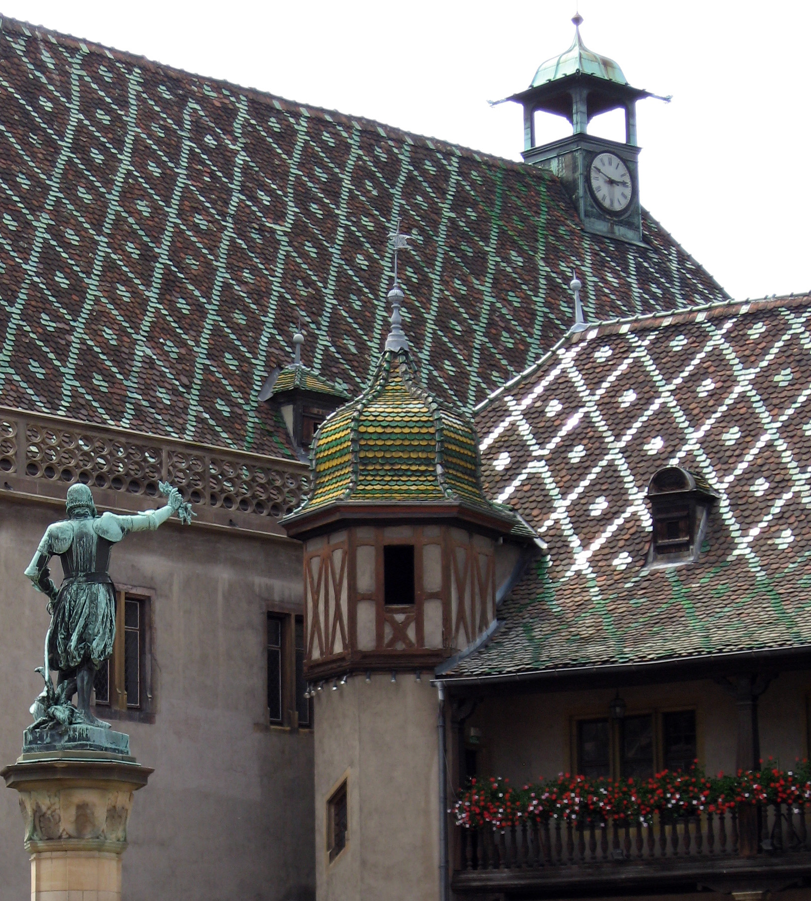 The Koifhus was the old customs house of Colmar, the center of city life during its active years. It is the oldest public building in Colmar, completed in 1480.